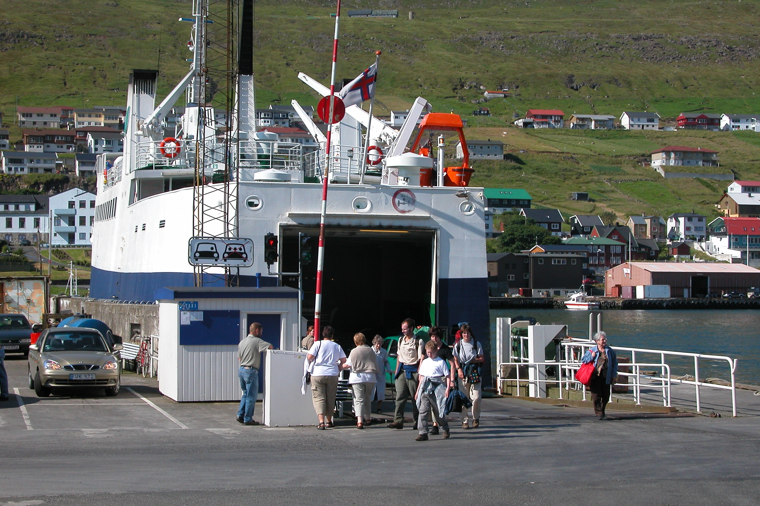 Ferry to Klaksvík, Faroe Islands.